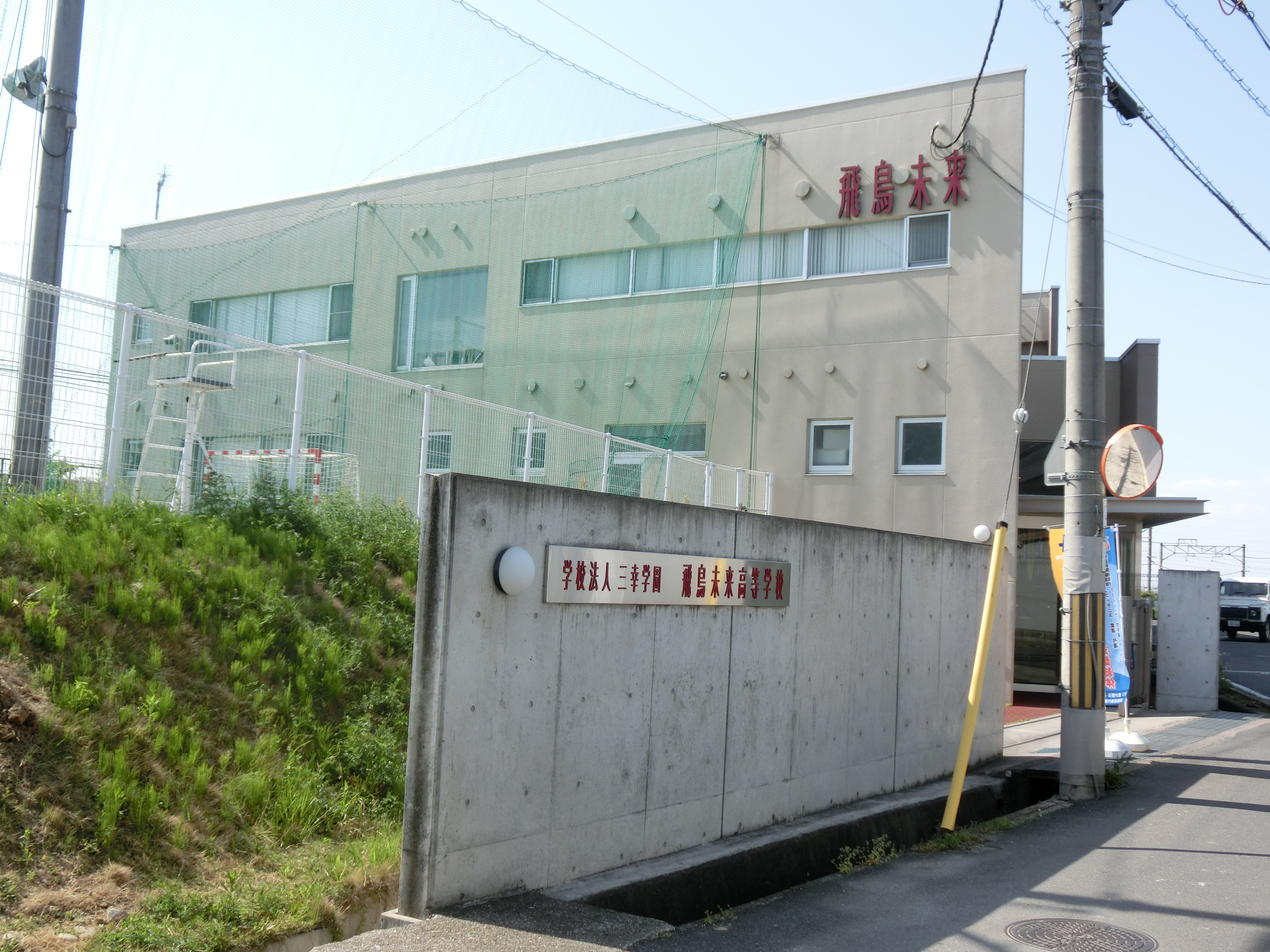 Asuka Mirai High School Nara Main School